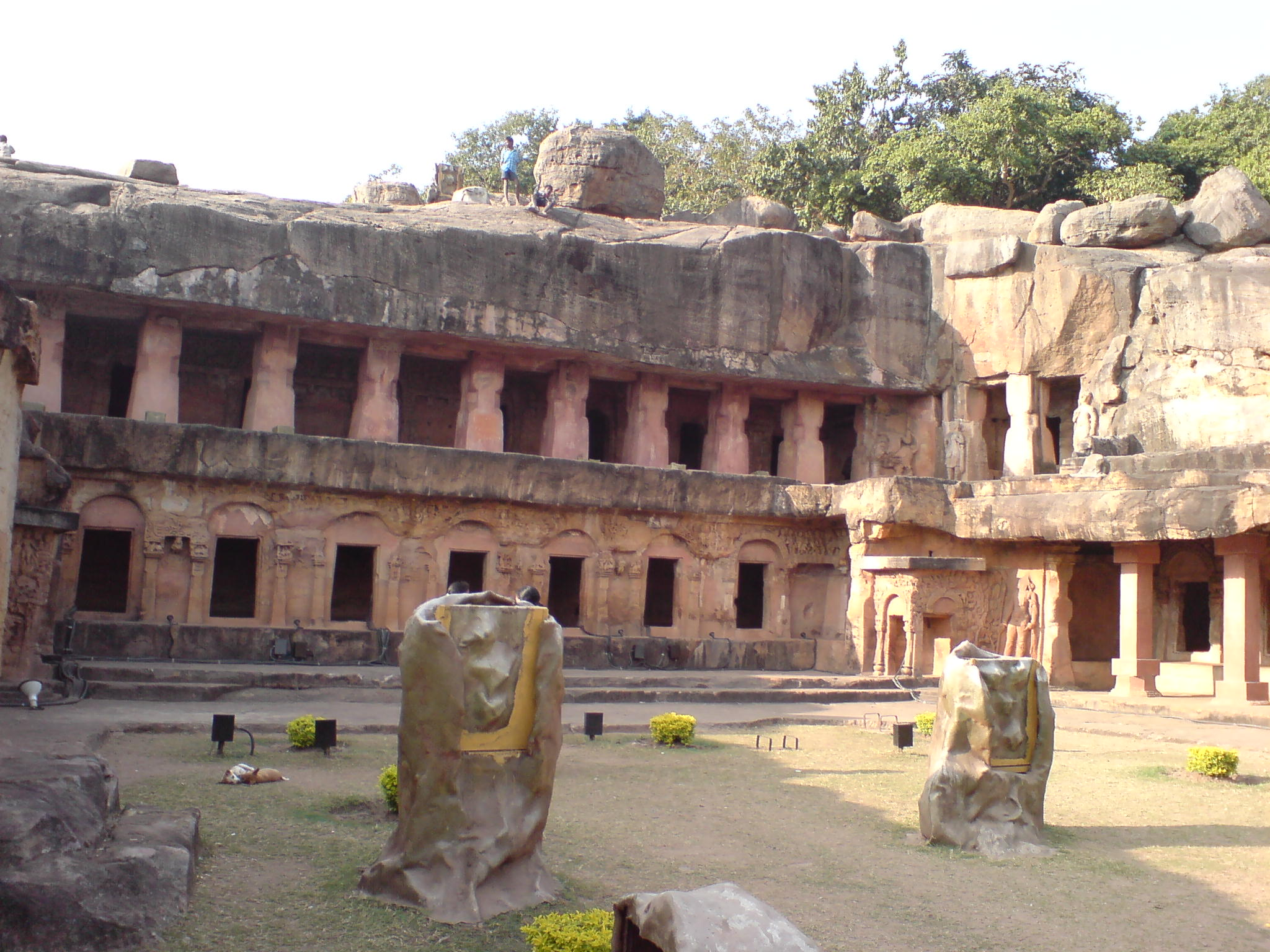 Buddhist site (excavated)